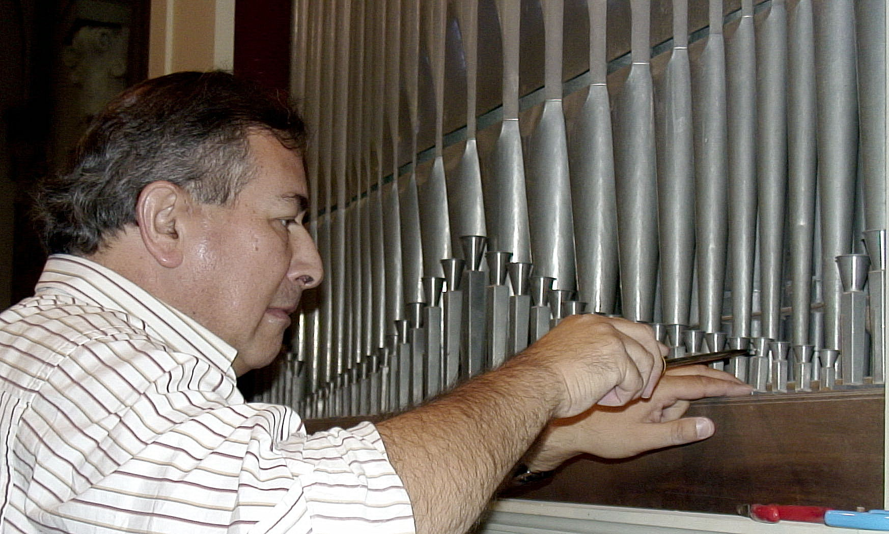 Mauricio Pergelier tuning the organ at the church of San Pietro al Natisone, Friuli, Italy